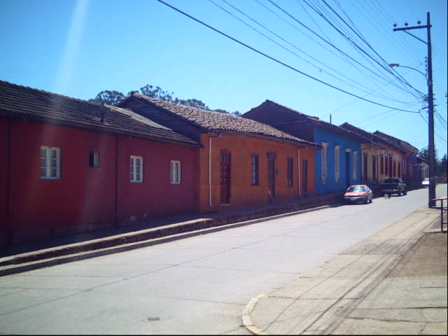 Street of Chanco. This sector of the city and others were declared Typical Zone in 2002.